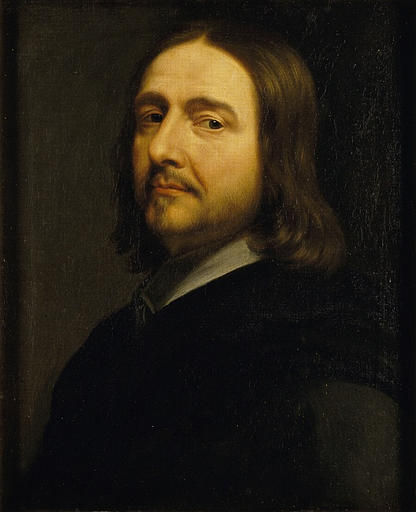 Self-portrait (after)